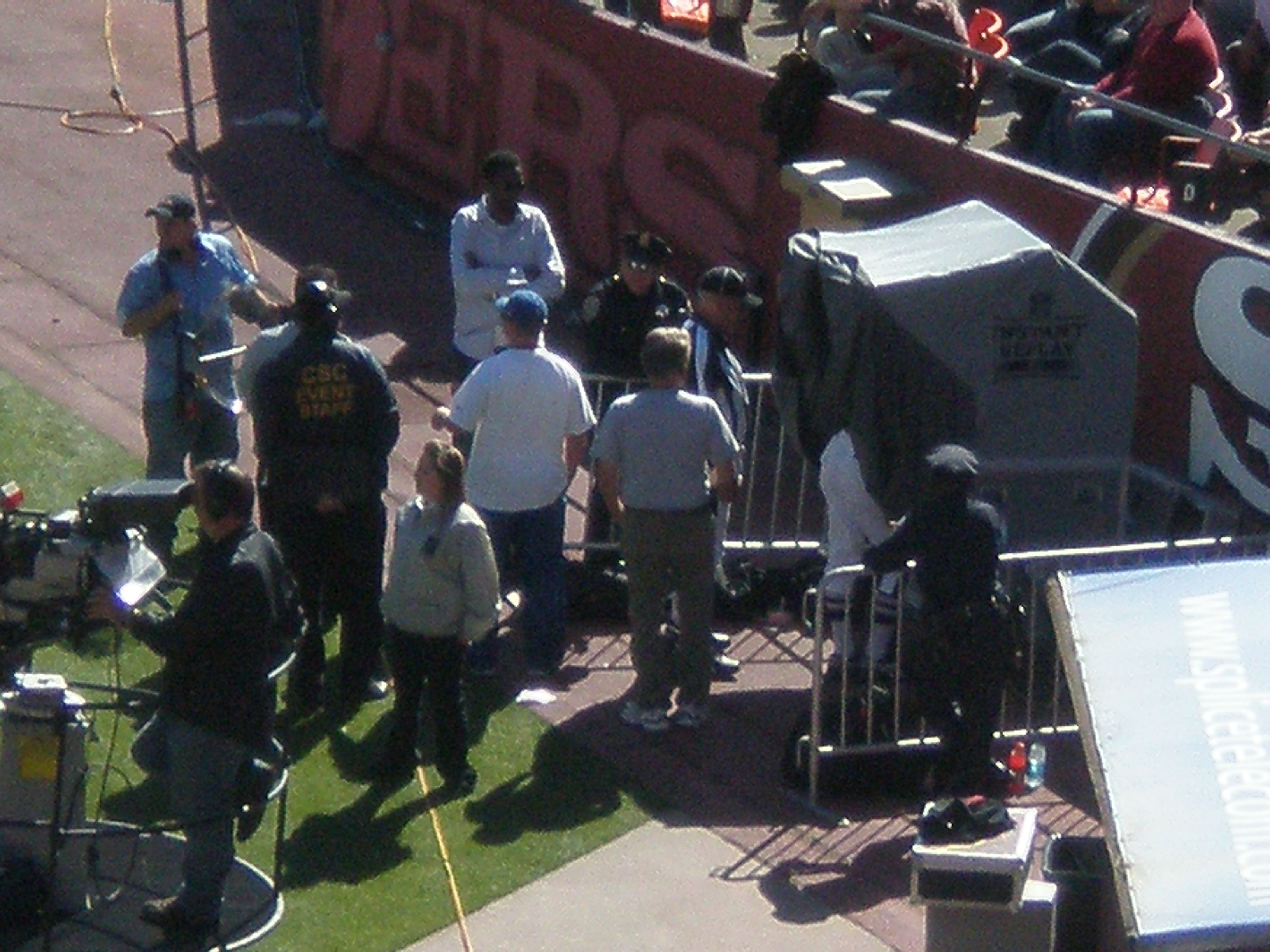 Referee Ron Winter reviews a play in the replay booth at Candlestick Park during a game between the San Francisco 49ers and Philadelphia Eagles. The Eagles won 40-26.